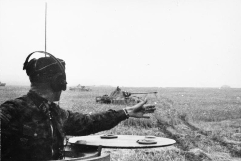 Panther tanks of 2nd SS Panzer Division Das Reich during Operation Citadel